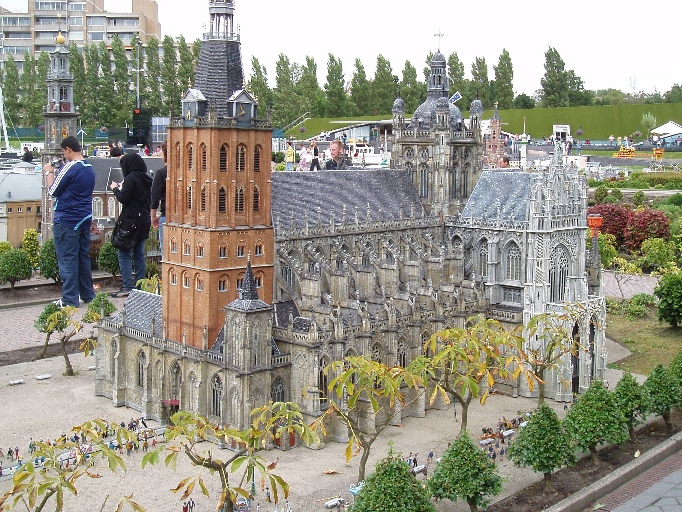 Madurodam in the Hague in the Netherlands; Model of Sint Jan in 's-Hertogenbosch